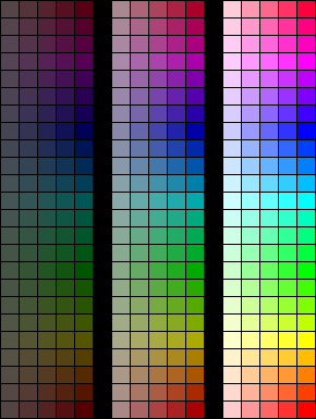 Image created from scratch by me.